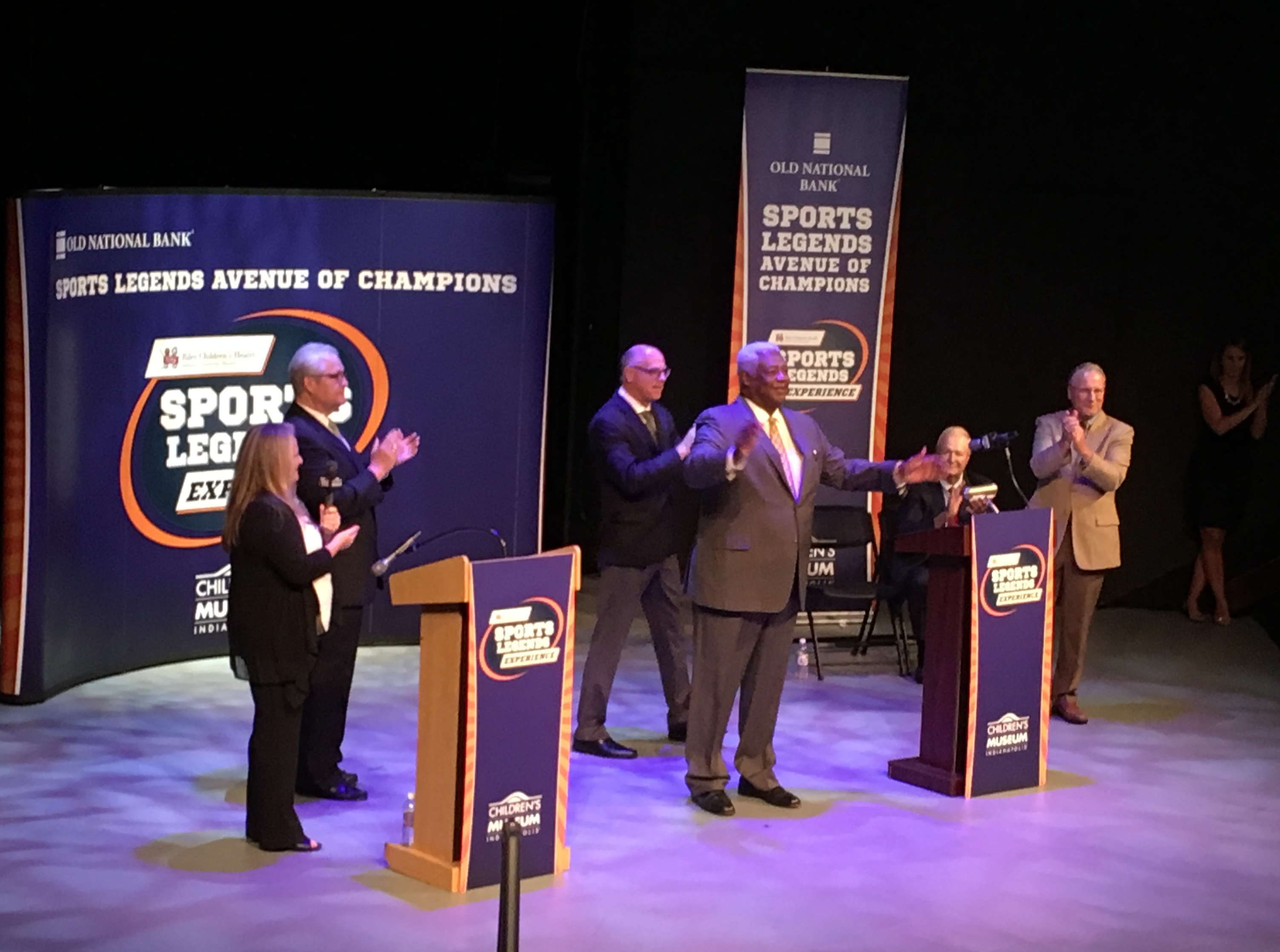 Oscar Robertson at The Children's Museum of Indianapolis, Sports Legends Avenue of Champions event on September 12, 2017.